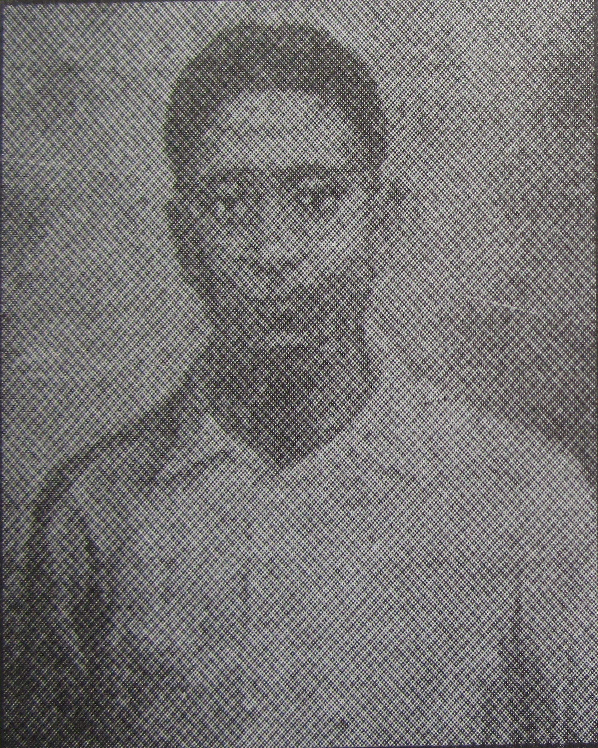 Santosh Kumar Mitra